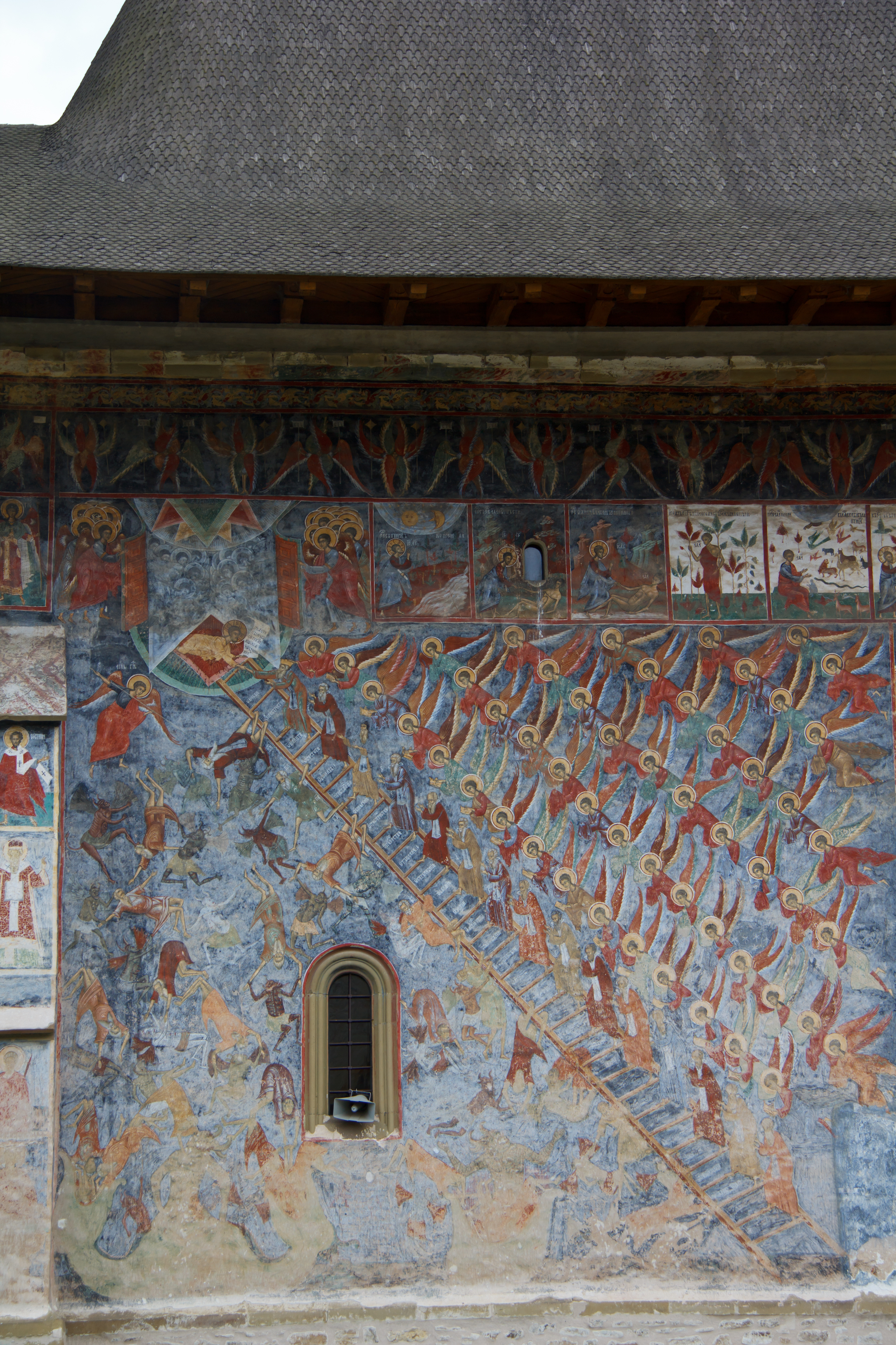 Sucevita Monastery's Church - Stairway to heaven 01